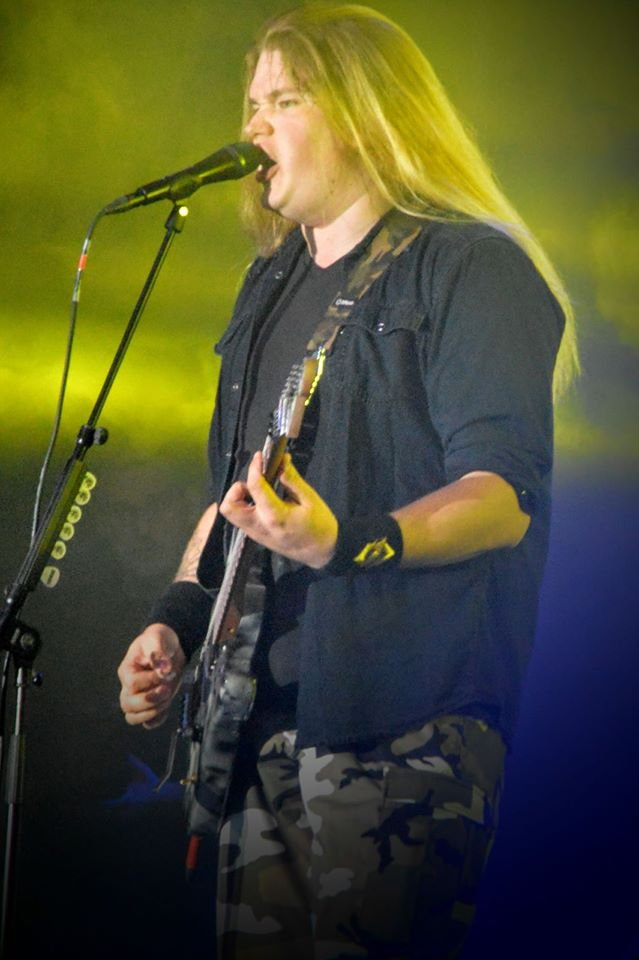 Tommy Johansson (Sabaton) on Sabaton Open Air 2016